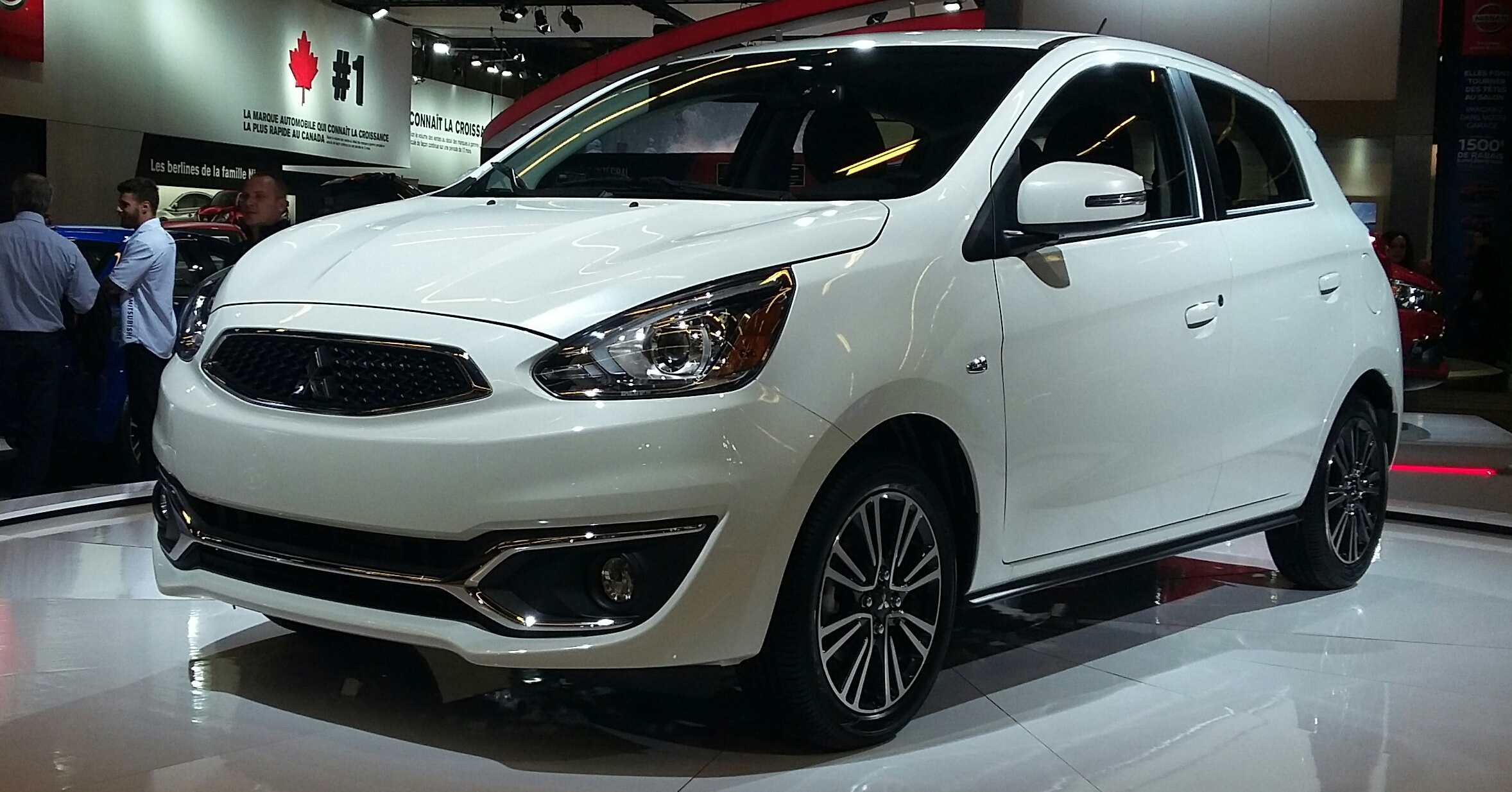 2017 Mitsubishi Mirage photographed in Montreal, Quebec, Canada at the Salon International de l’auto de Montréal 2016.